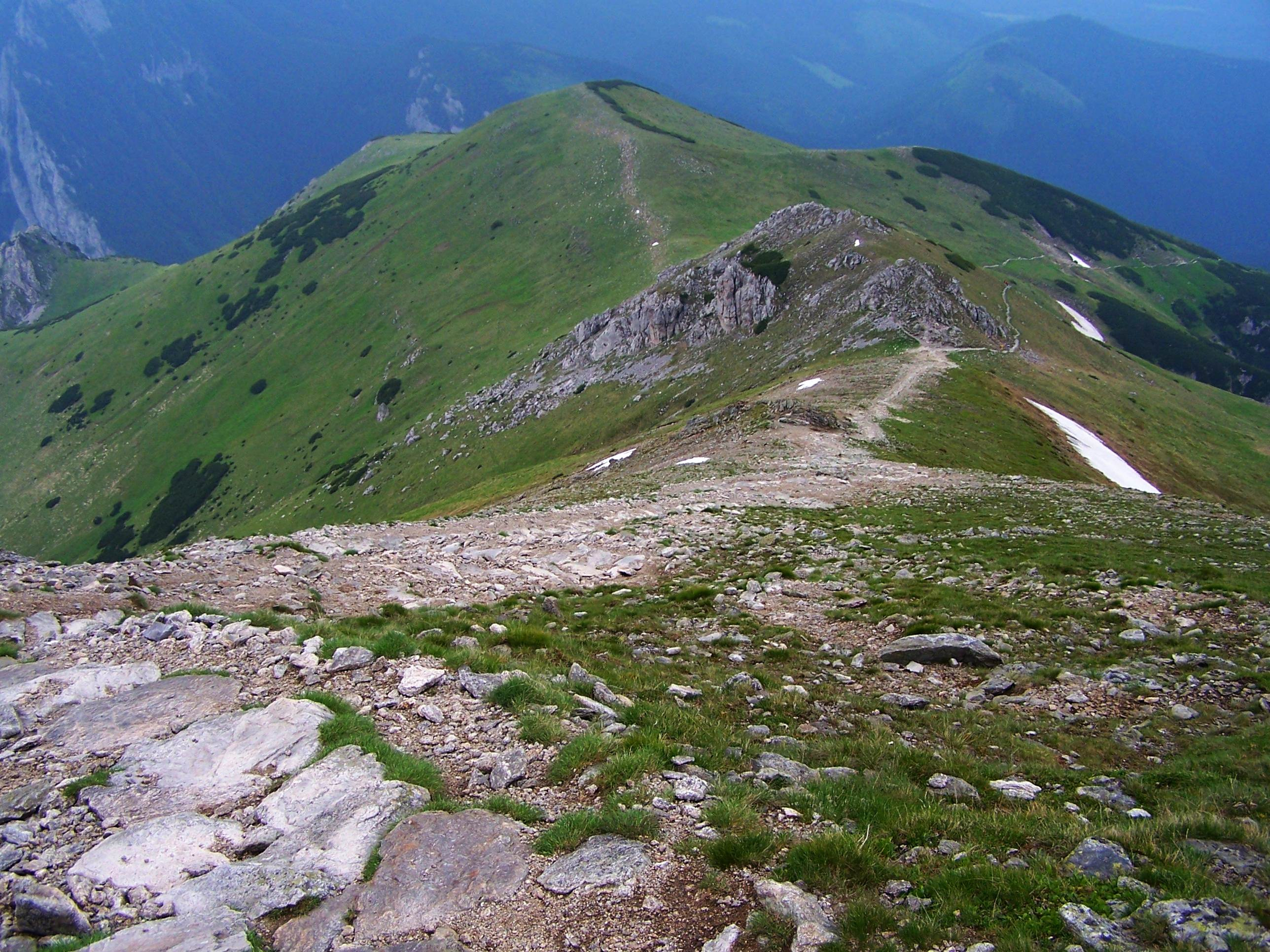 Hala Upłaz, West Tatra Mountains